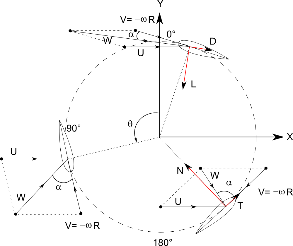 Forces, velocities and incident angles of a Darrieus wind turbine Created with Inkscape by Ervin Amet 02 September 2007